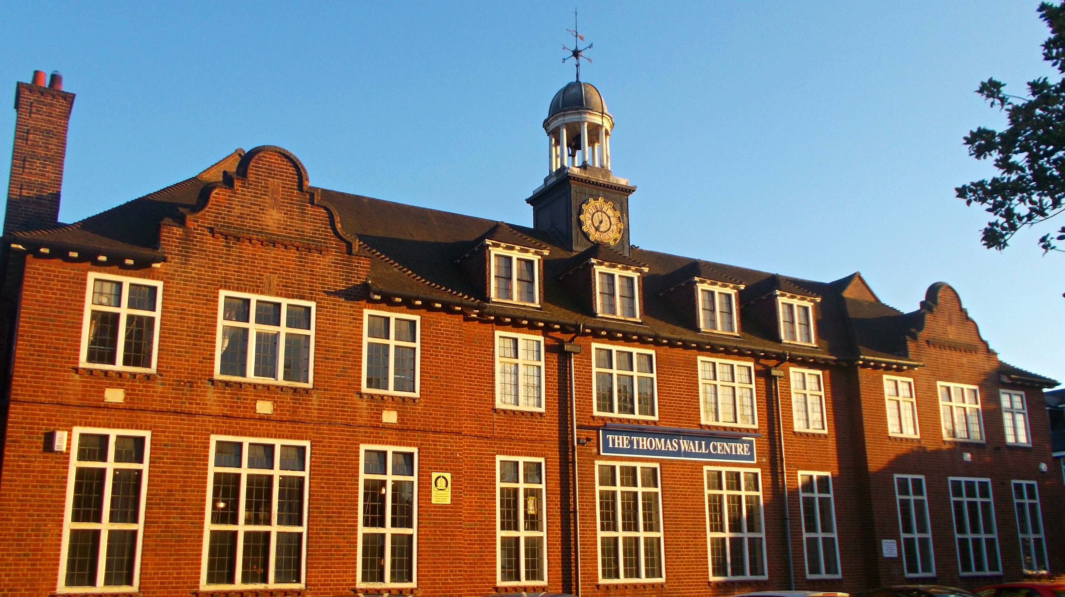 The Sutton Adult School and Institute opened in 1910 and 1911 in a large Edwardian building in Benhill Avenue. It later became the Thomas Wall Centre, named after the area's benefactor of Wall's sausage and ice cream fame.